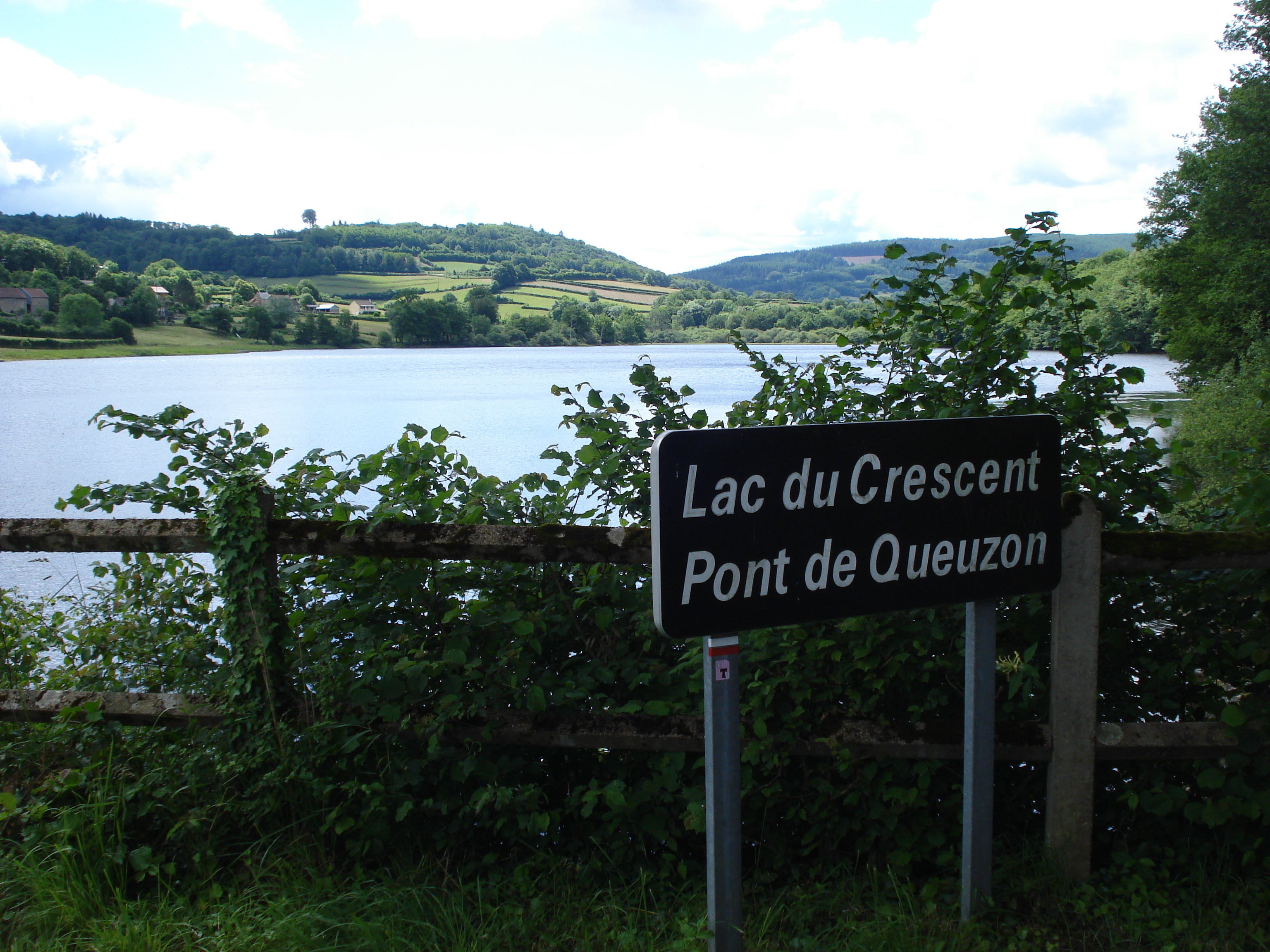 Lac du Crescent au Pont de Queuzon.